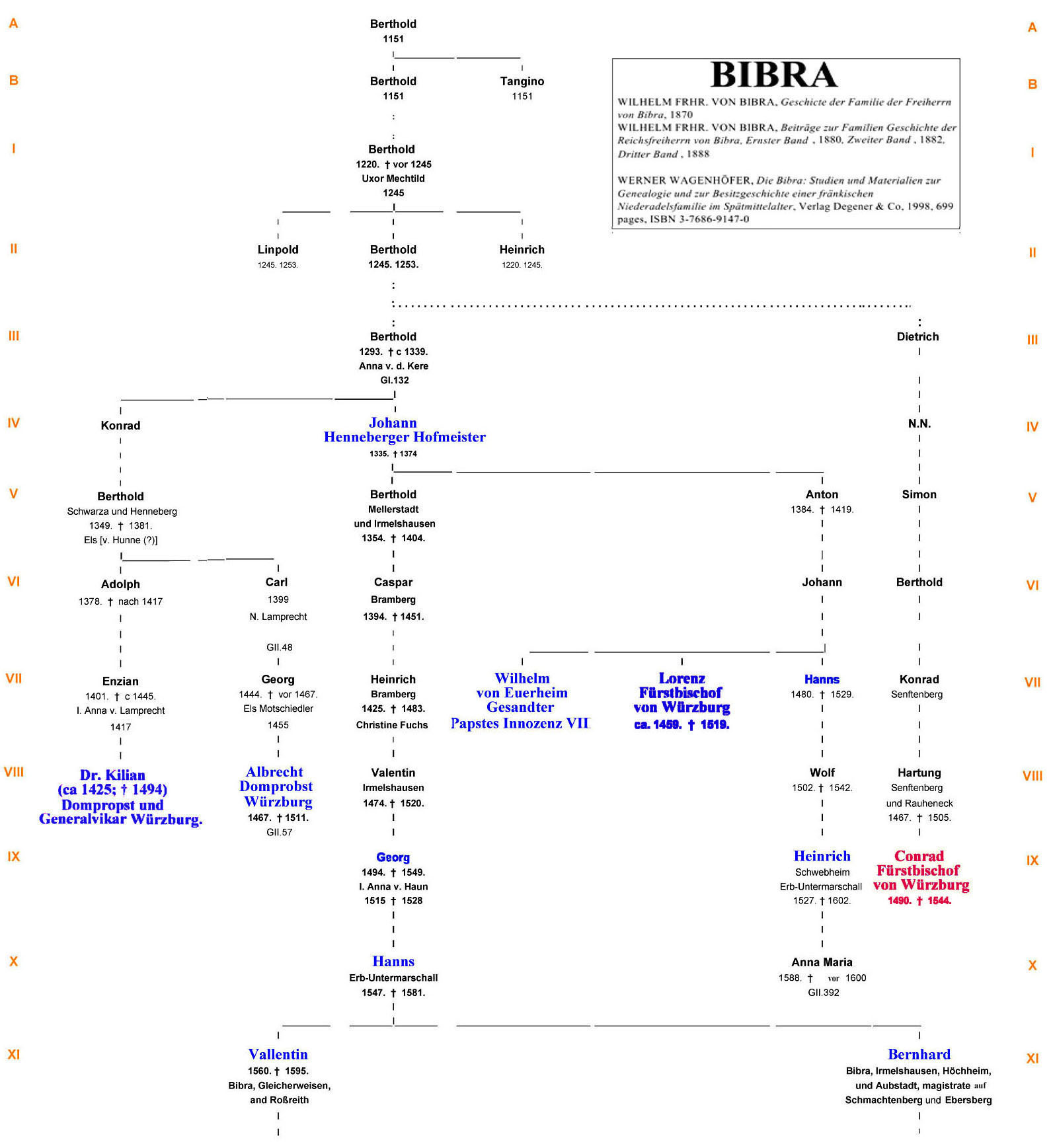 Chart of Conrad von Bibra's relationships to early Bibras